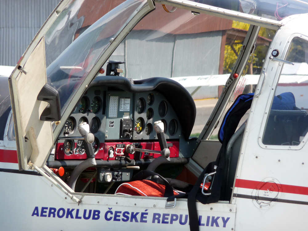 Zlín 42M OK-JSB Cocpit